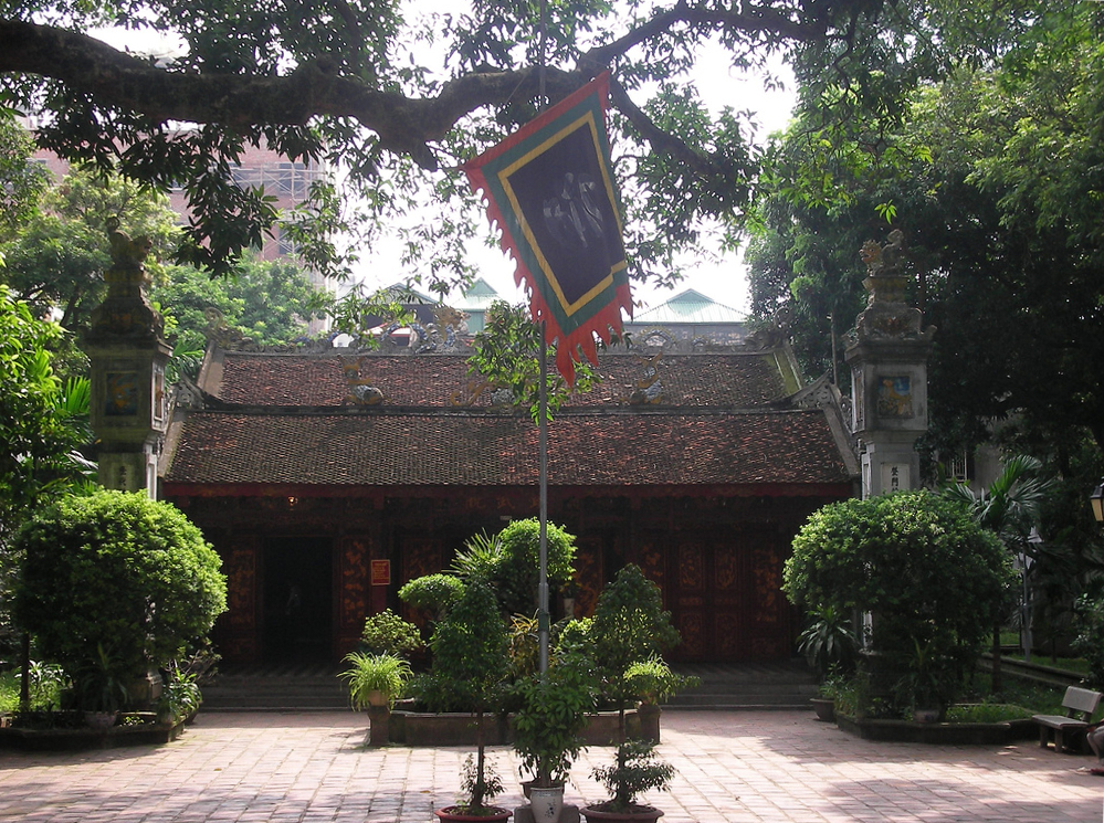 Tranvu temple in Hà Nội, Việt Nam